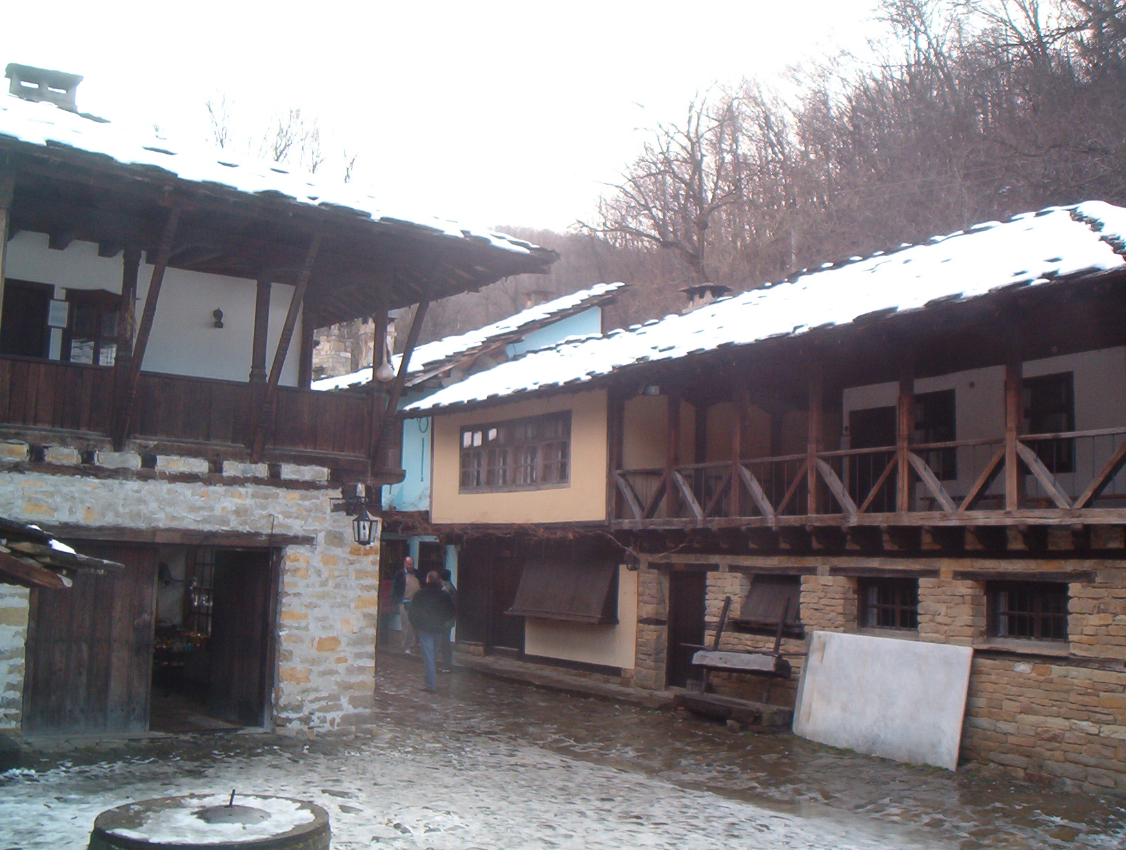 Architecturical-Ethnographic Complex "Etar", Bulgaria